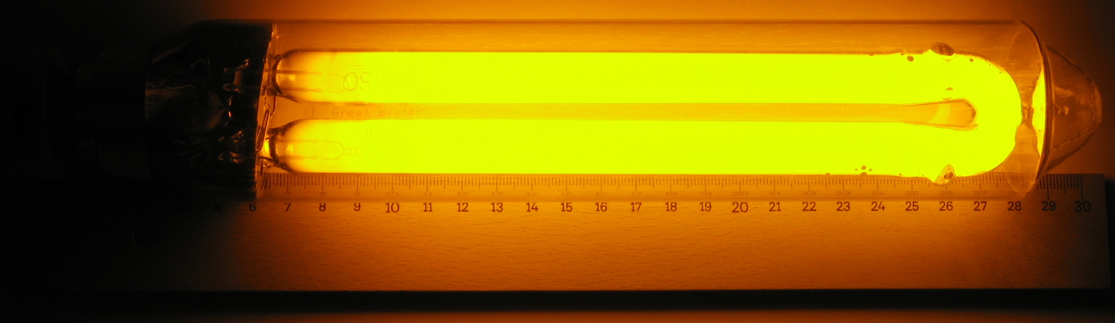 Low Pressure Sodium Lamp, OSRAM 35W SOX, running